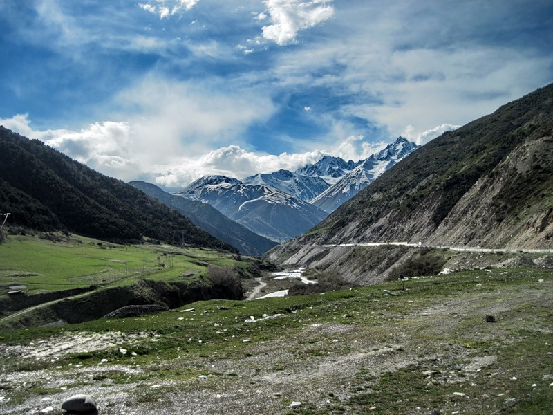 Nar valley in North Ossetia, south Russia.